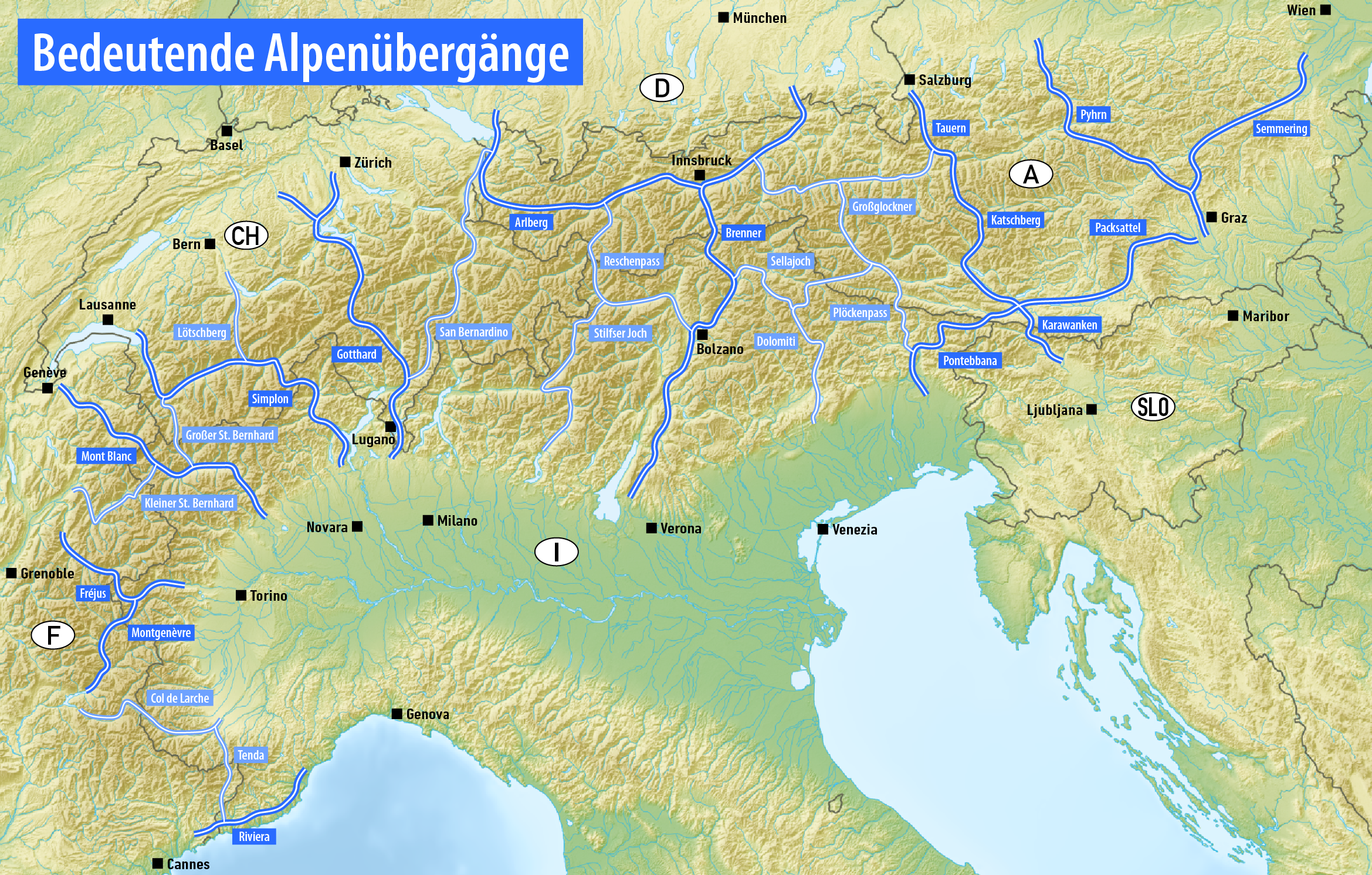 Map of important routes through the Alps